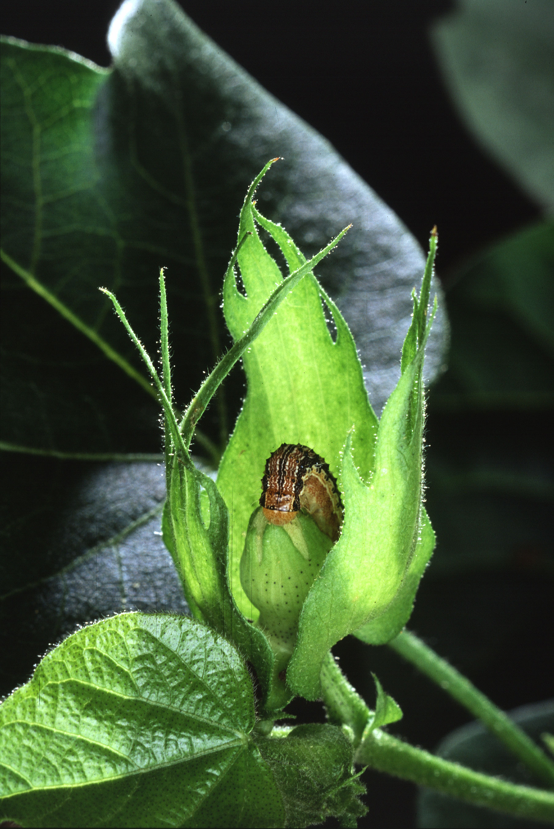 Cotton bullworm from Image Number K4695-1 Costly crop pests like this cotton bollworm may soon encounter a new biological control-the celery looper virus-being tested by the Agricultural Research Service and a commercial laboratory. Photo by Scott Bauer.